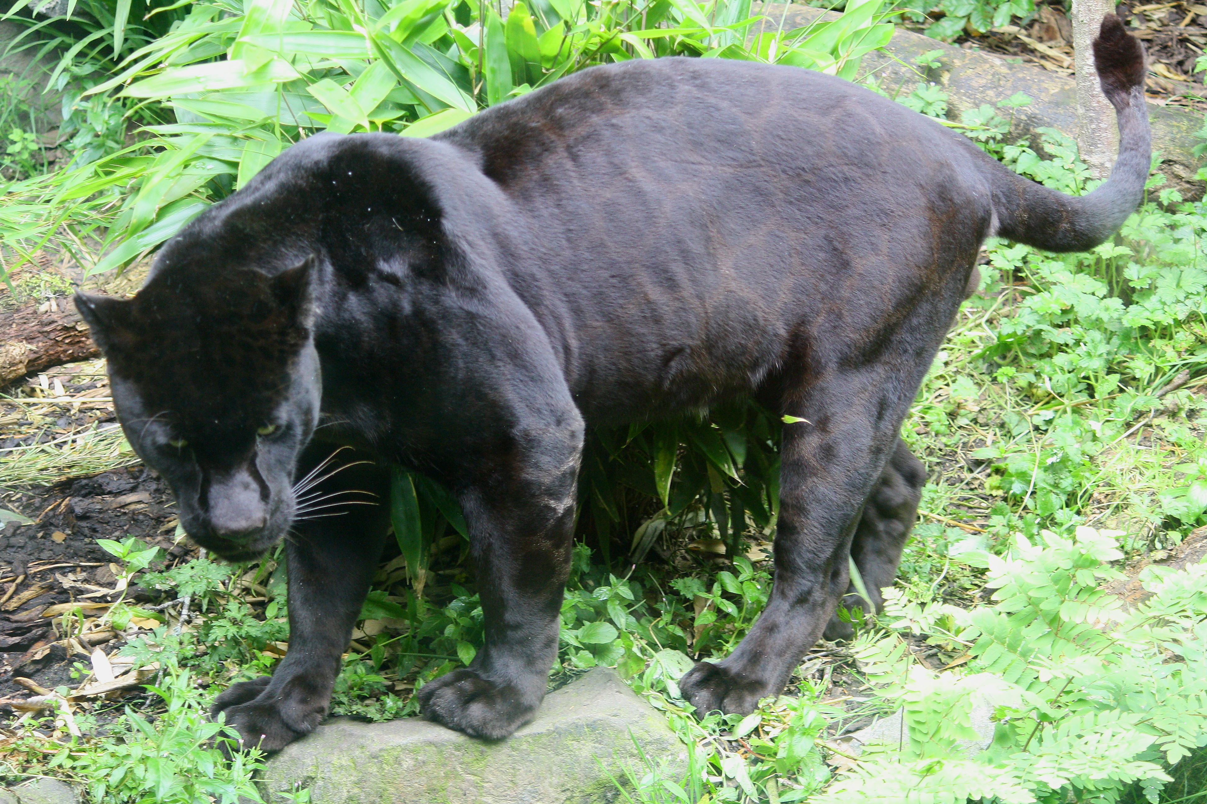 Black jaguar (Panthera onca) in zoological garden in Edinburgh